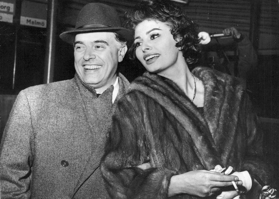 Italian star Sophia Loren in Copenhagen – Refuses to comment on "baby" story.On their arravial in Copenhagen – on their way from Rome to Los Angeles – Italian screen star Sophia Loren and her husband Carlo Ponti – refused to comment on the story that Sophia was expecting a baby. Sophia appears unaffected by the ban in Italy of her films – because of her marrige – that has been condemned by the Vatican.